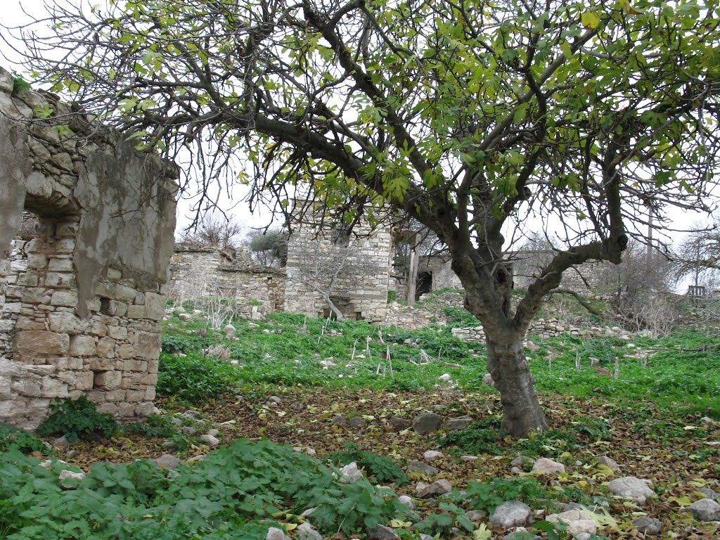 Stone houses of Faleia